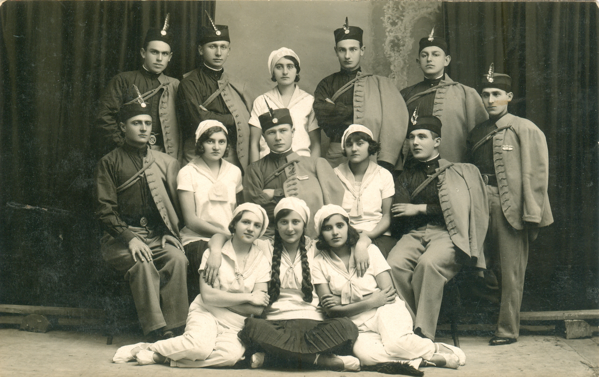 The Scouts Society in Negotin in 1931. Srpski (latinica): Prednjački zbor u Negotinu sa Nikolom D.Bogićem 1931.